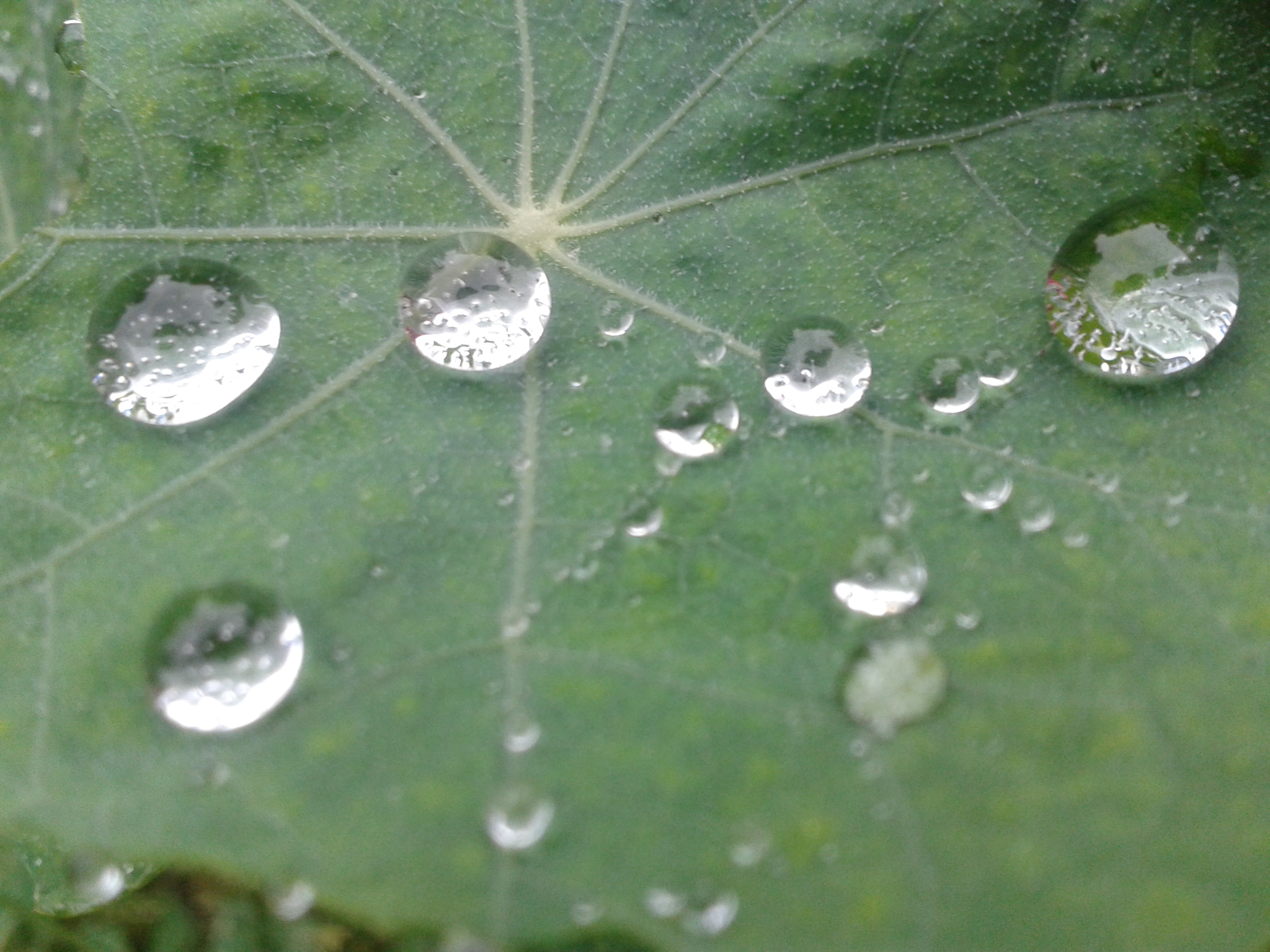 dew, surface tension